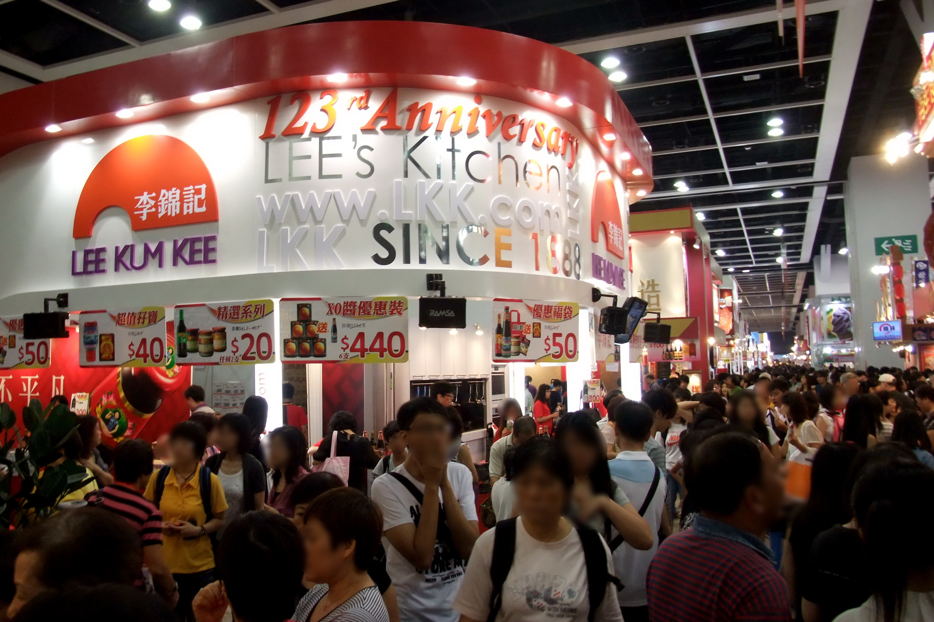 A Lee Kum Kee booth at the HKTDC Food Expo 2011.